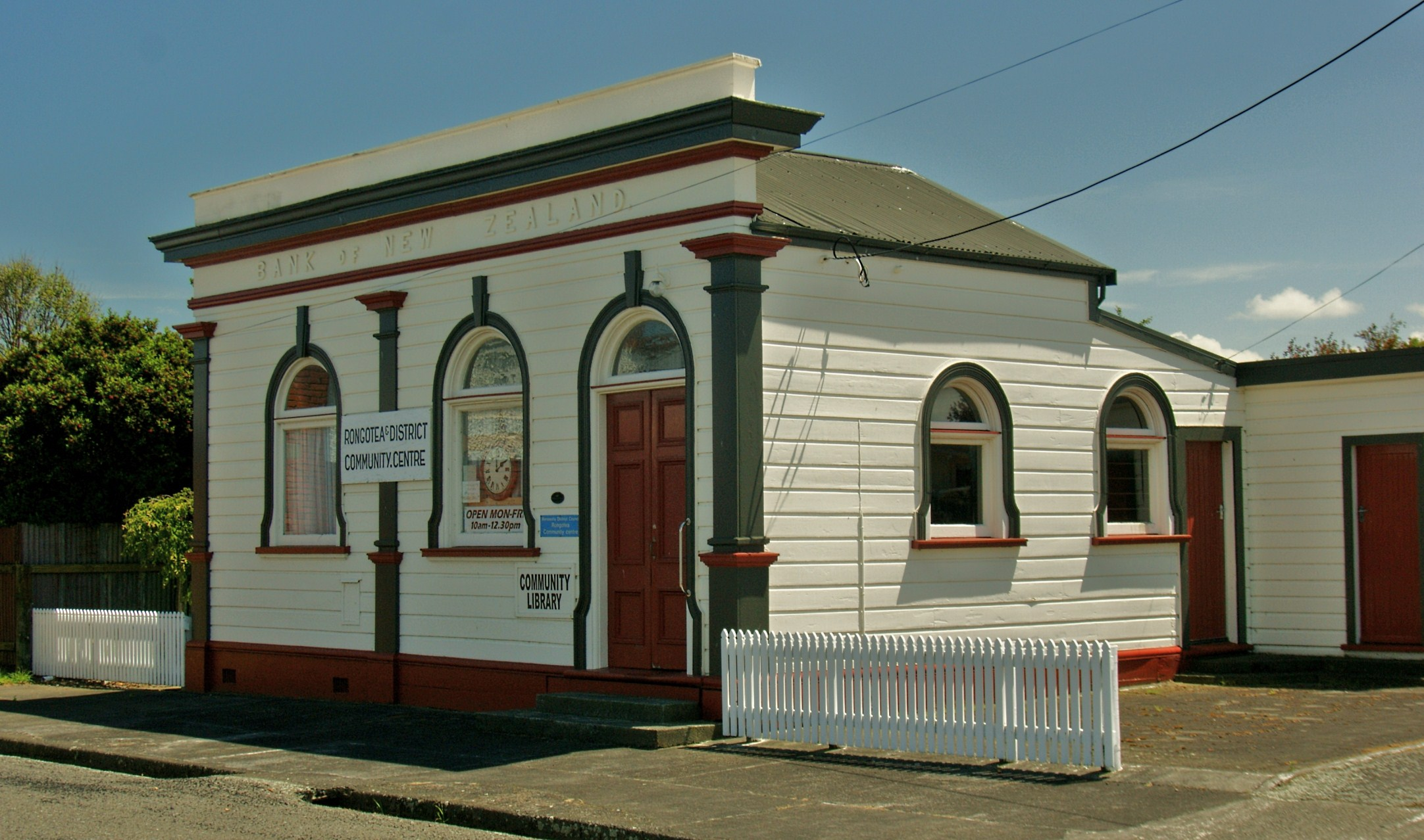 former Bank of New Zealand, now community center; Rongotea, New Zealand